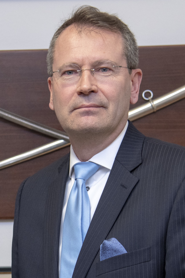 Marine Corps Gen. Joe Dunford, chairman of the Joint Chiefs of Staff, meets with Secretary General of the Austrian Minister of Defense Dr. Wolfgang Baumann at Rossauer Barracks in Vienna, Austria, March 4, 2019. (DoD Photo by Navy Petty Officer 1st Class Dominique A. Pineiro)